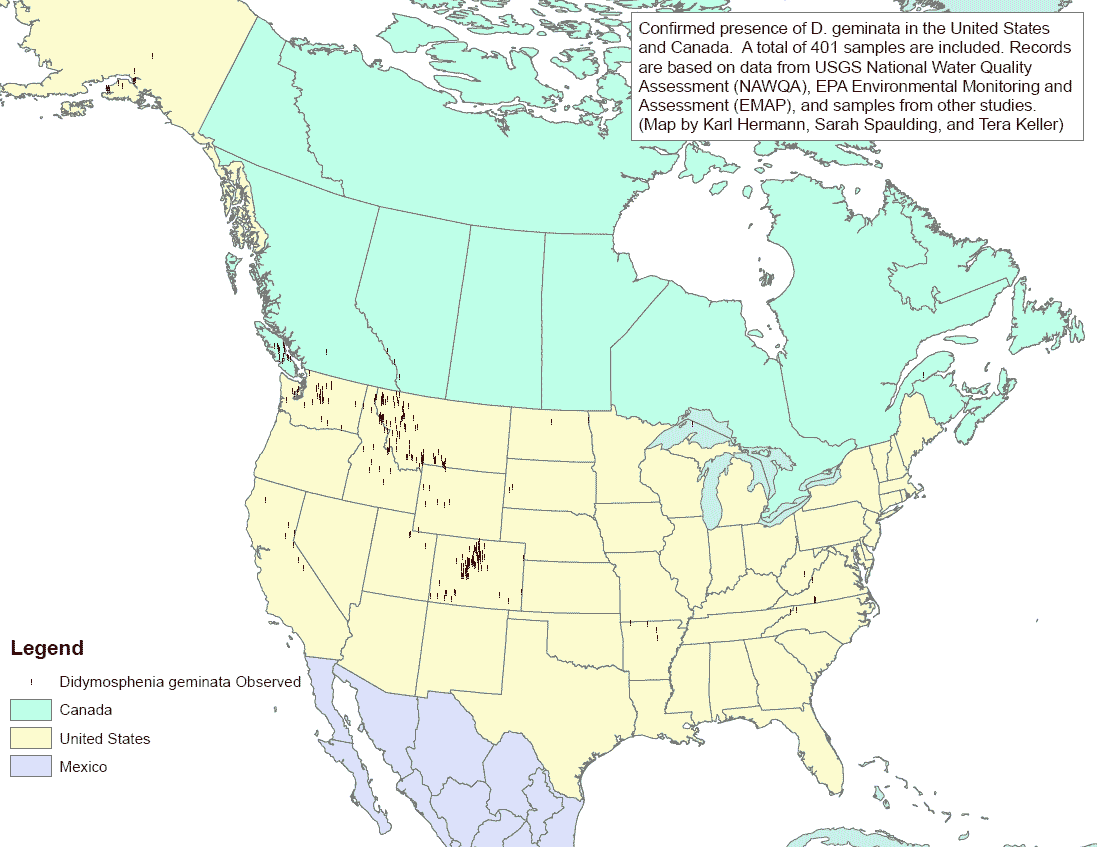 Didymo distribution - Confirmed presence of Didymosphenia geminata in the United States and Canada PDF version is here: [1] EPA page on didymo here: [2]